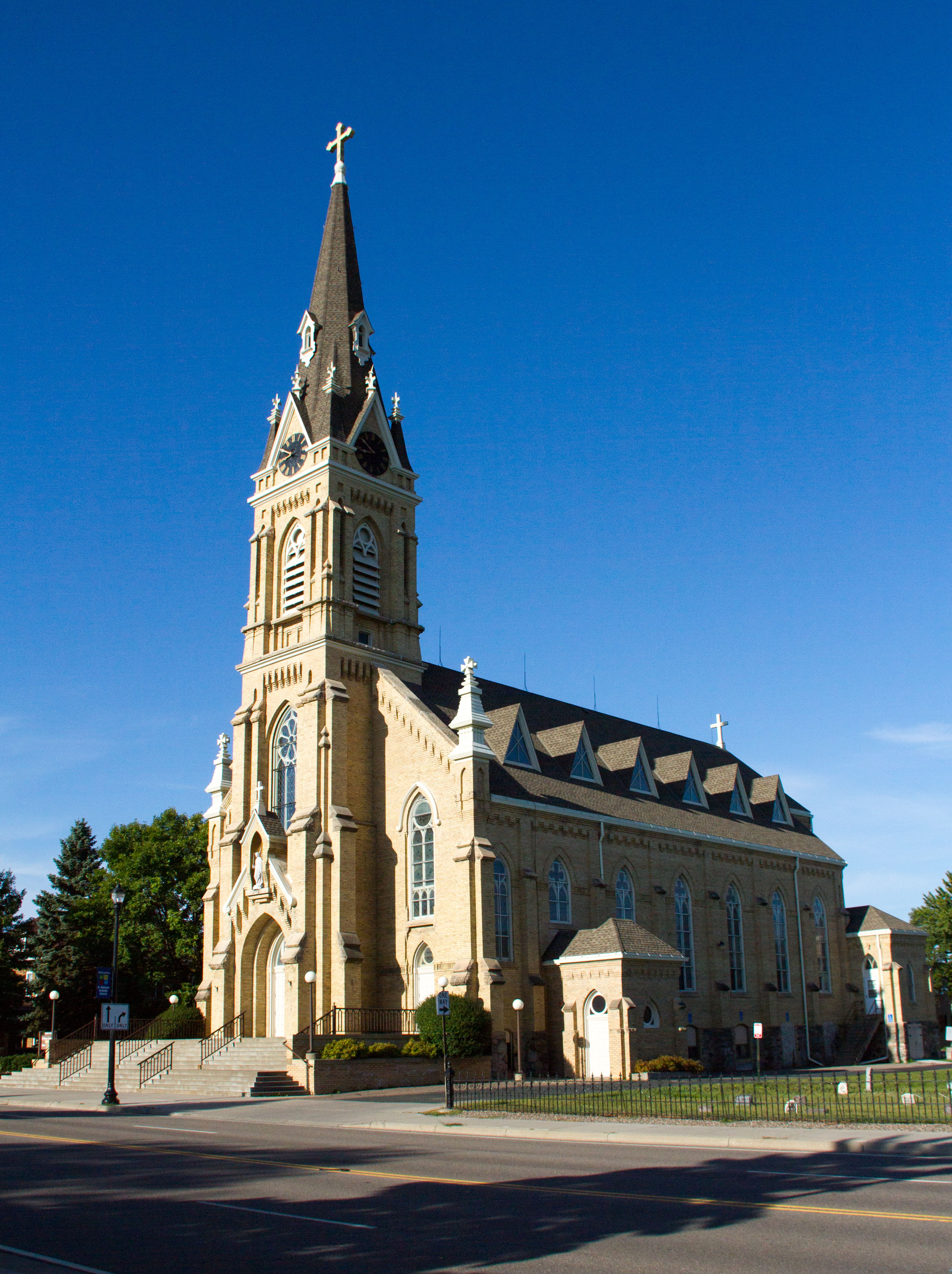 Church of St. Michael-Catholic, St. Michael, Minnesota, USA.